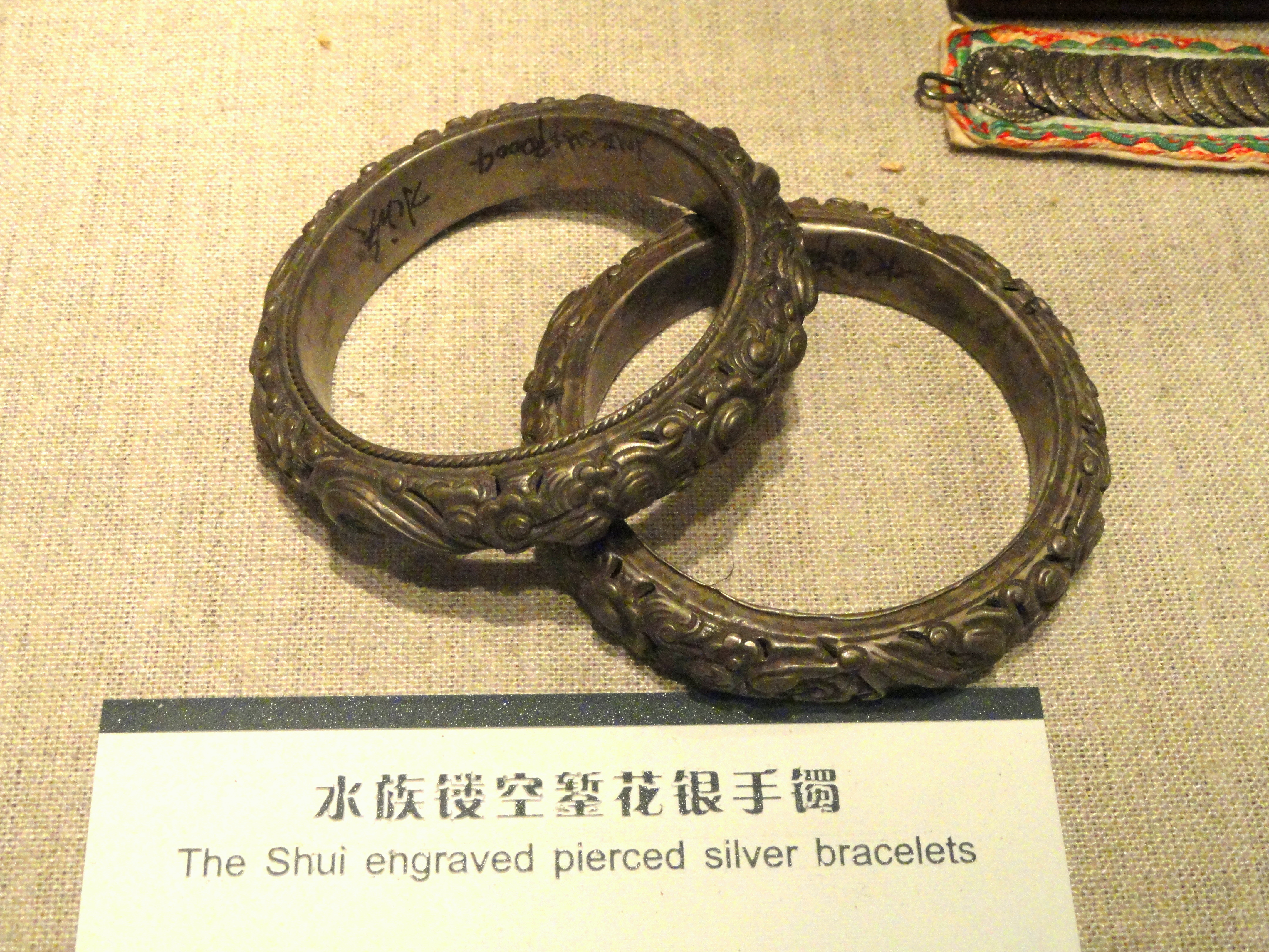 Shui silver bracelets. Jewelry in the Yunnan Nationalities Museum, Kunming, Yunnan, China.